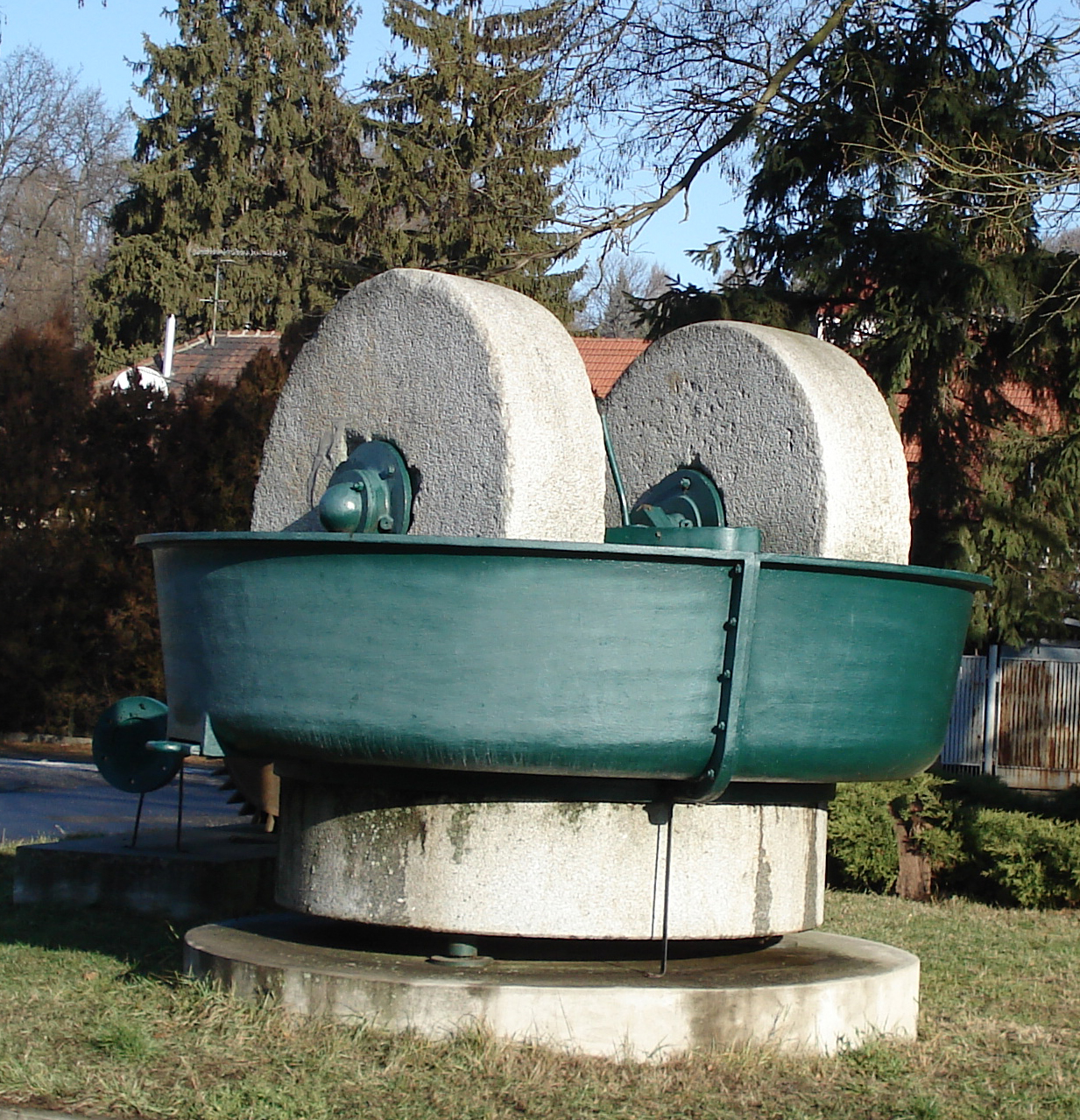 Old edge mill, Diósgyőr Papermill, Miskolc, Hungary